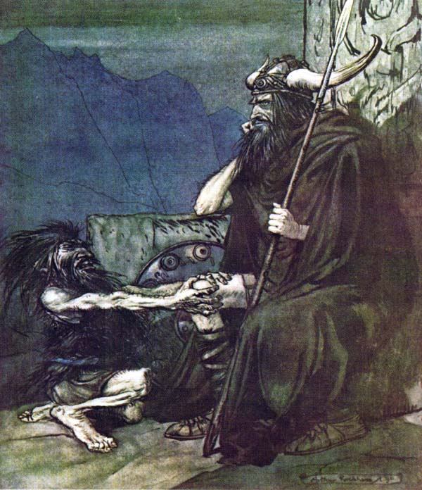 "Swear to me, Hagen, my son!"